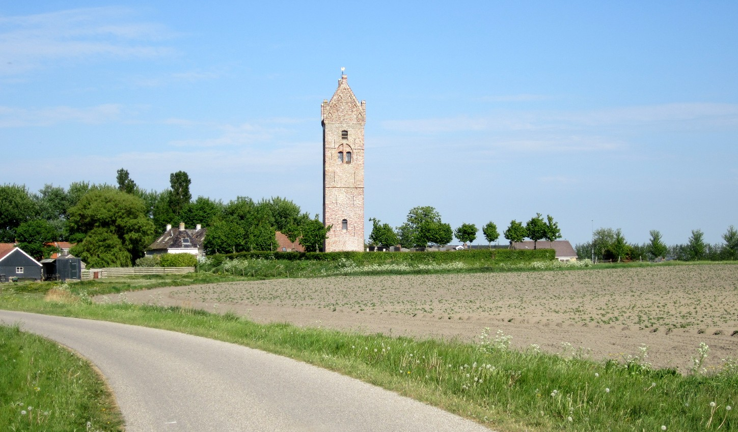 The village of Furdgum (Firdgum), Friesland, the Netherlands, as viewed from the direction of Tsjummearum (Tzummarum).